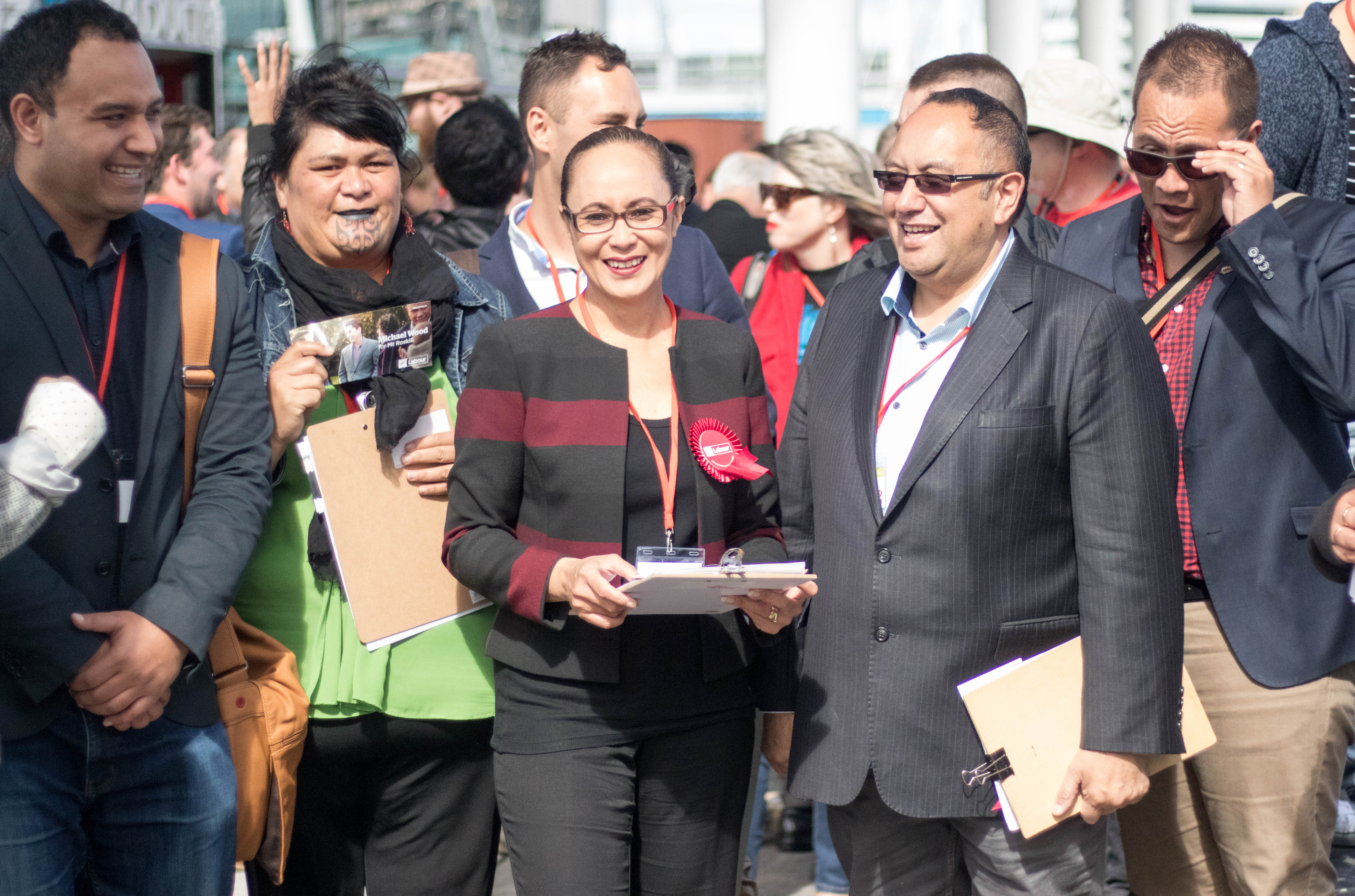 Nanaia Mahuta, Jenny Salesa, Adrian Rurawhe and Tamati Coffey campaigning for Michael Wood in the Mount Roskill by-election, 2016